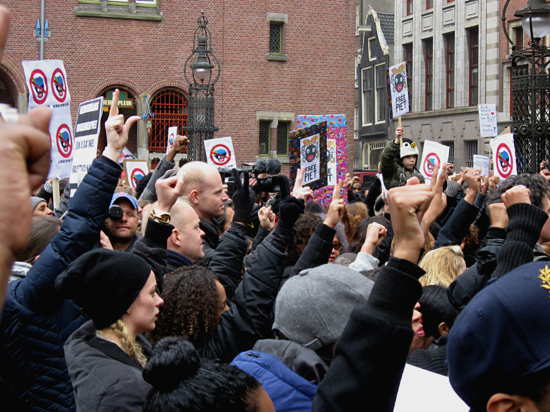 This is a photo that was taken at an anti Zwarte Piet protest in Amsterdam on November 16th, 2013.